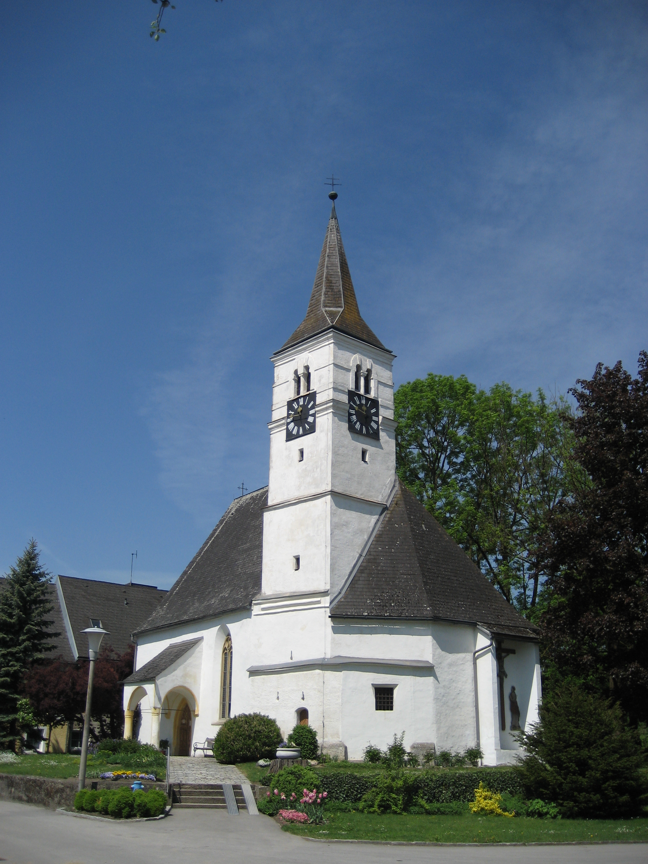 Dietach, Upper Austria, Austria, Europe: Subsidiary church in "Stadlkirchen" district.